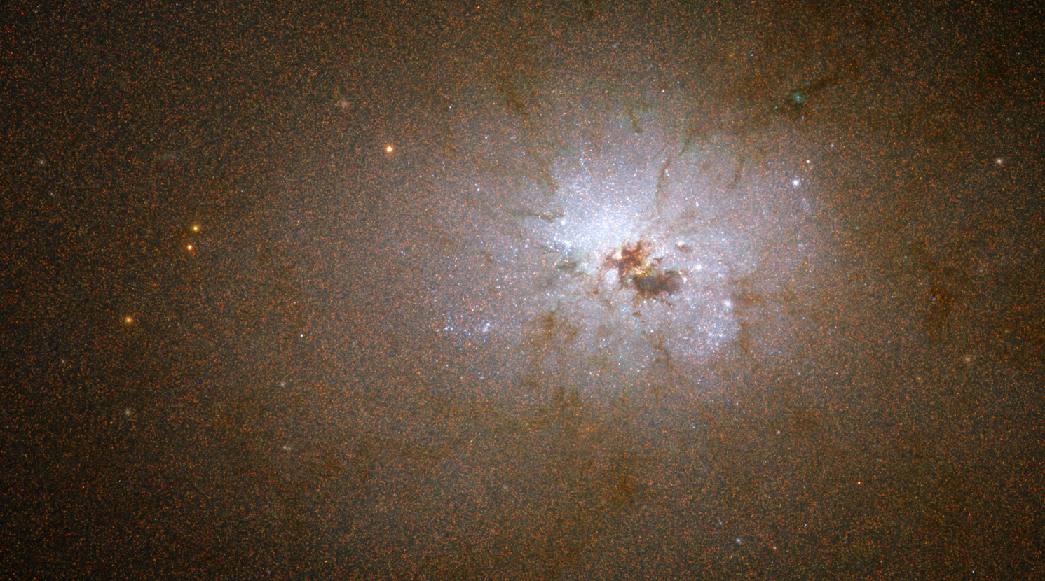 NGC 3077 captured by the Hubble Space Telescope. The dark clumps of material scattered around the bright nucleus of NGC 3077 are pieces of wreckage from the galaxy's interactions with its larger neighbors. NGC 3077 is a member of the M81 group of galaxies and it resides 12.5 million light-years from Earth.